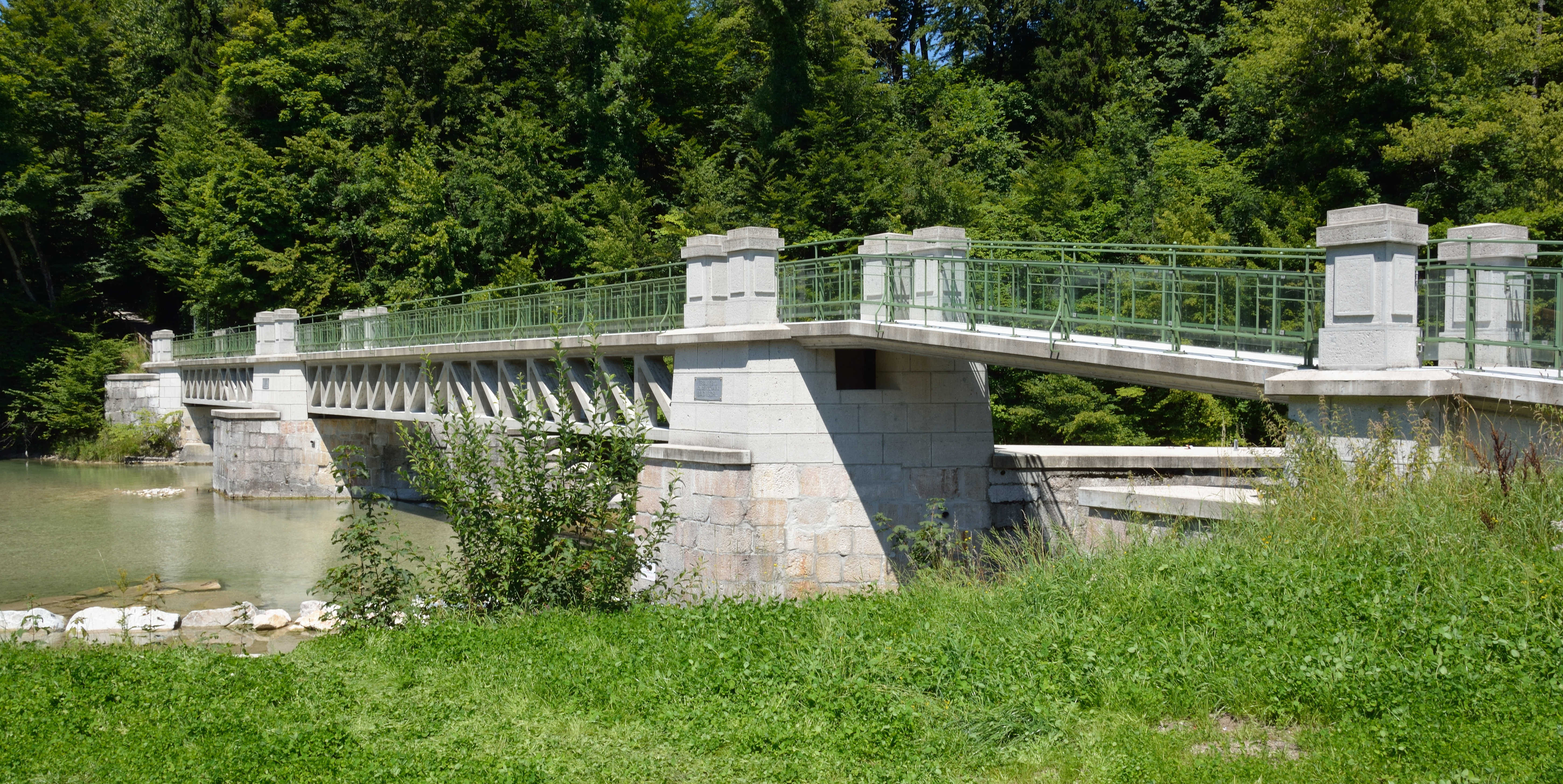 Rechensteg, pedestrian and bycicle bridge, Bad Ischl, Upper Austria